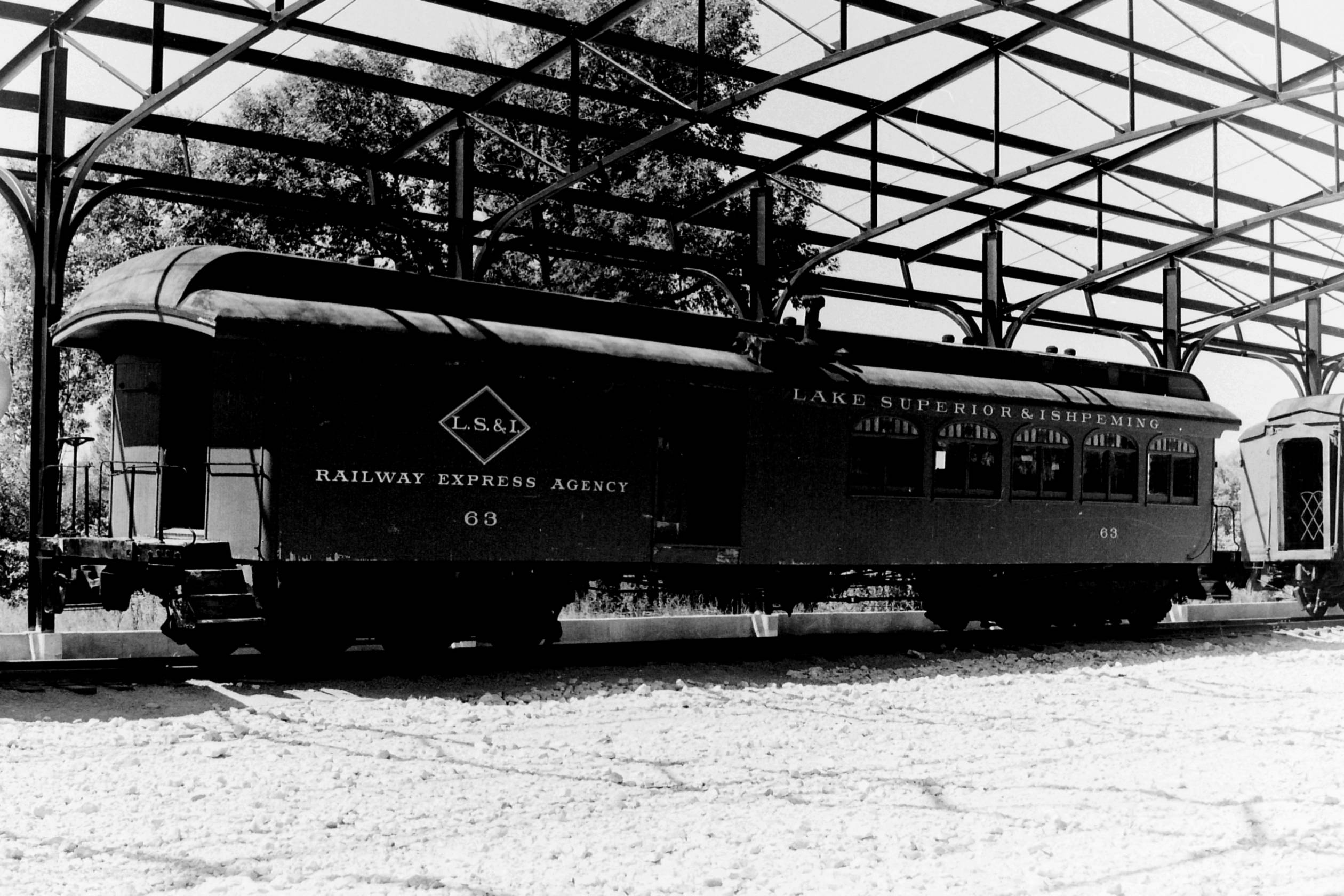 Lake Superior & Ishpeming RR/Railway Express Agency "J.H.Kline" at Green Bay Railroad Museum, 8/70.